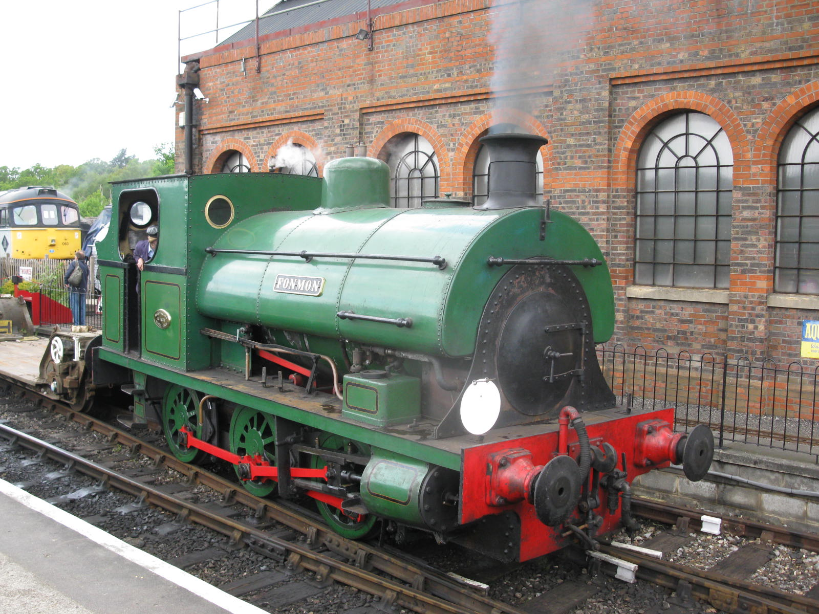 Peckett Works number 1363 Fonmon at Tunbridge Wells West, Spa Valley Railway.